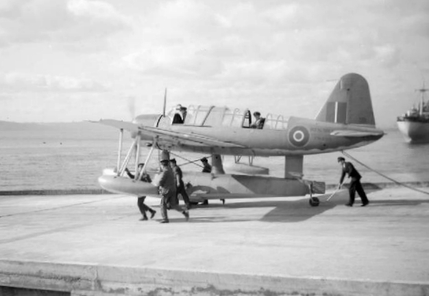 A Royal Navy Vought Kingfisher of 778 Naval Air Squadron going down the slipway at the Fleet Air Arm shore base at Arbroath, Scotland (UK), to set out on patrol. The FAA received 100 OS2U-3 and operated them between May 1942 and October 1943.